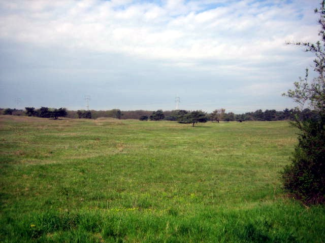 Panorama view of the Mainz Sand Dunes